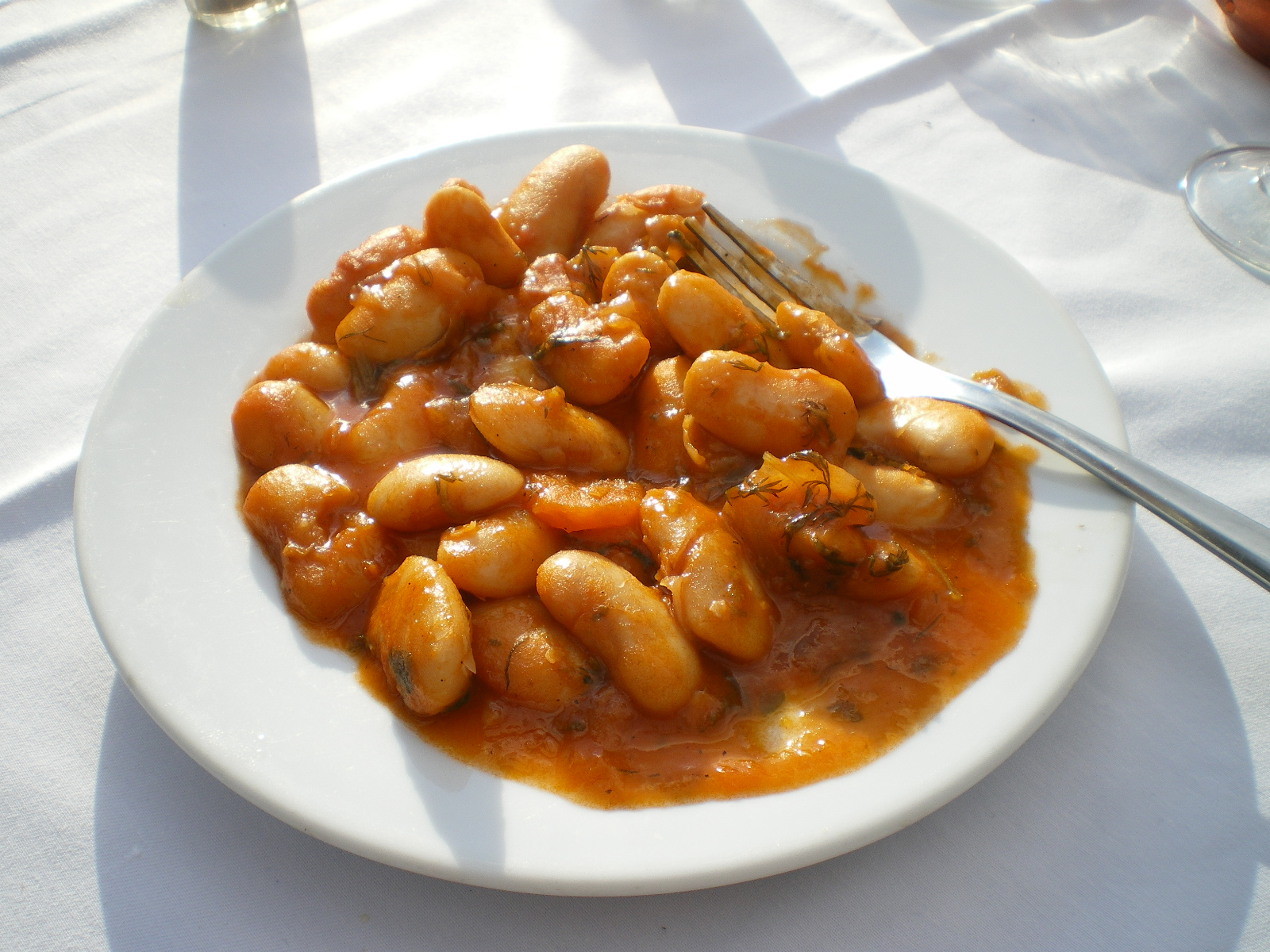 A serving of Gigandes plaki